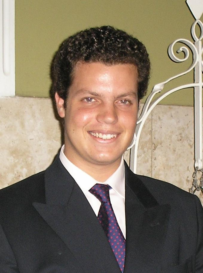 Brazilian Prince Pedro Luís of Orléans-Braganza.